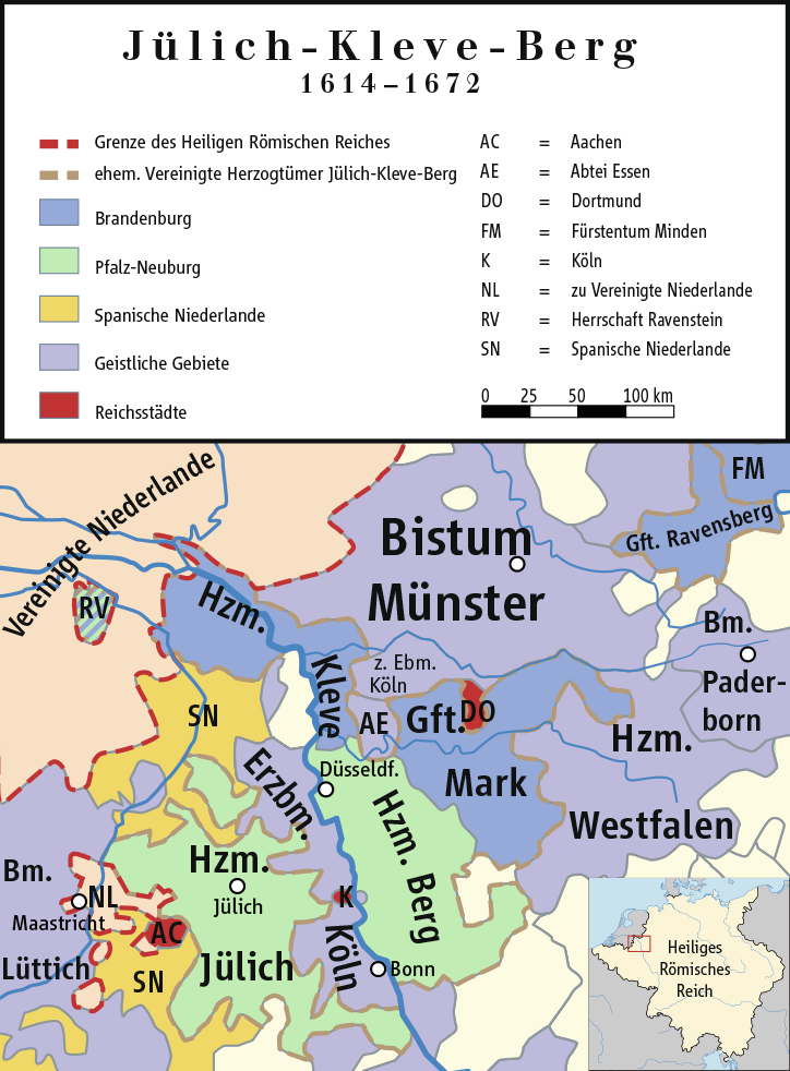 Map of the Duchies of Jülich-Cleve-Berg 1614-1672